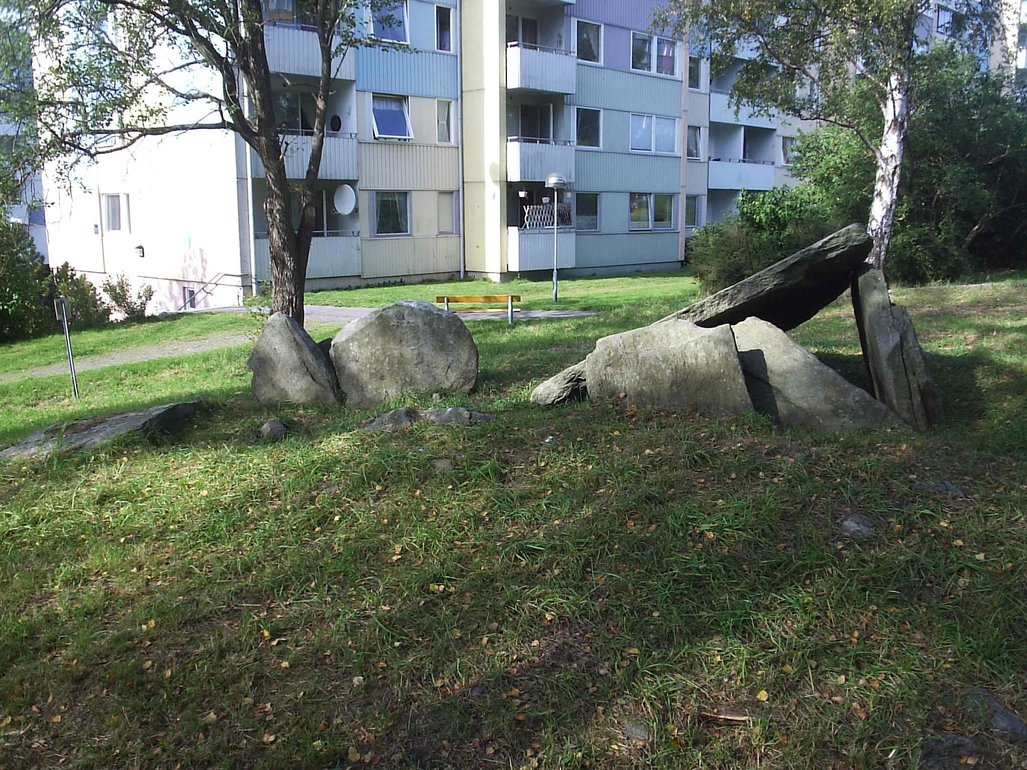 Photo by Harri Blomberg.